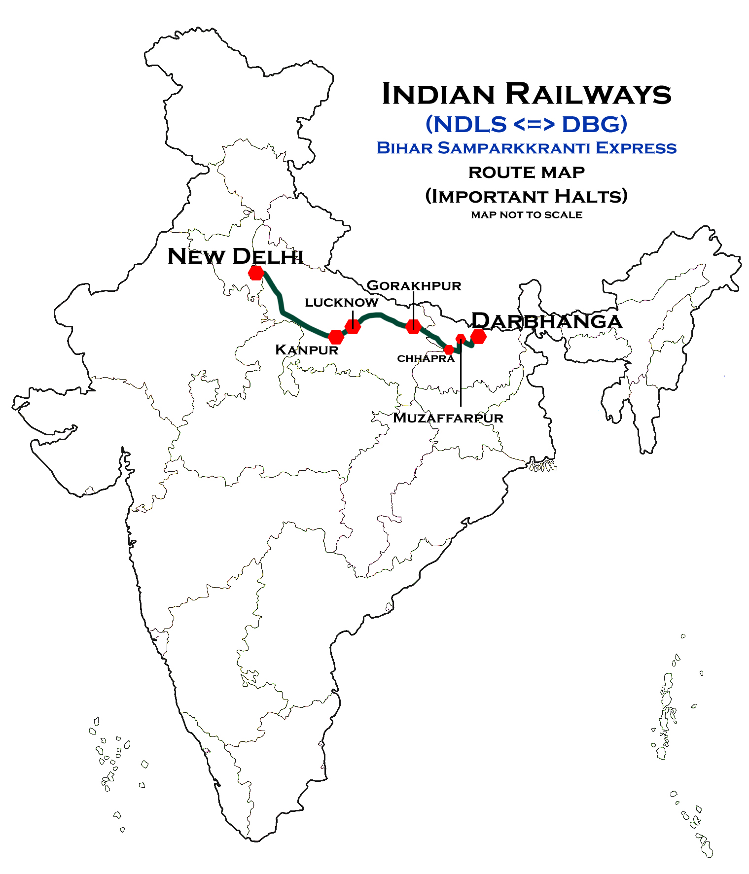 Bihar Samparkkranti Express (NDLS - DBG) Route map